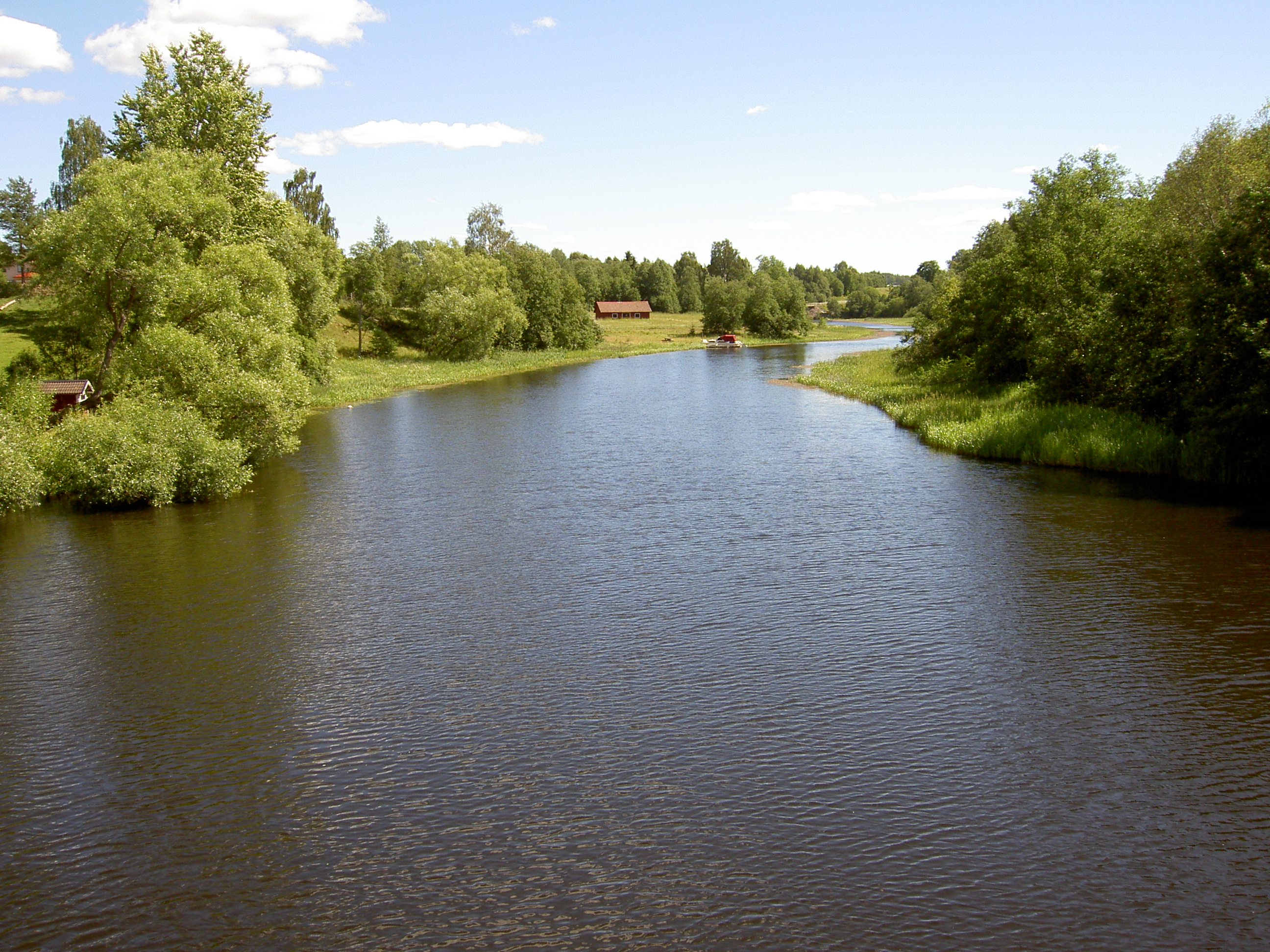 Tunaån, a stream in Borlänge, Sweden. Picture taken downstreams, from the bridge near Stora Tuna Church.